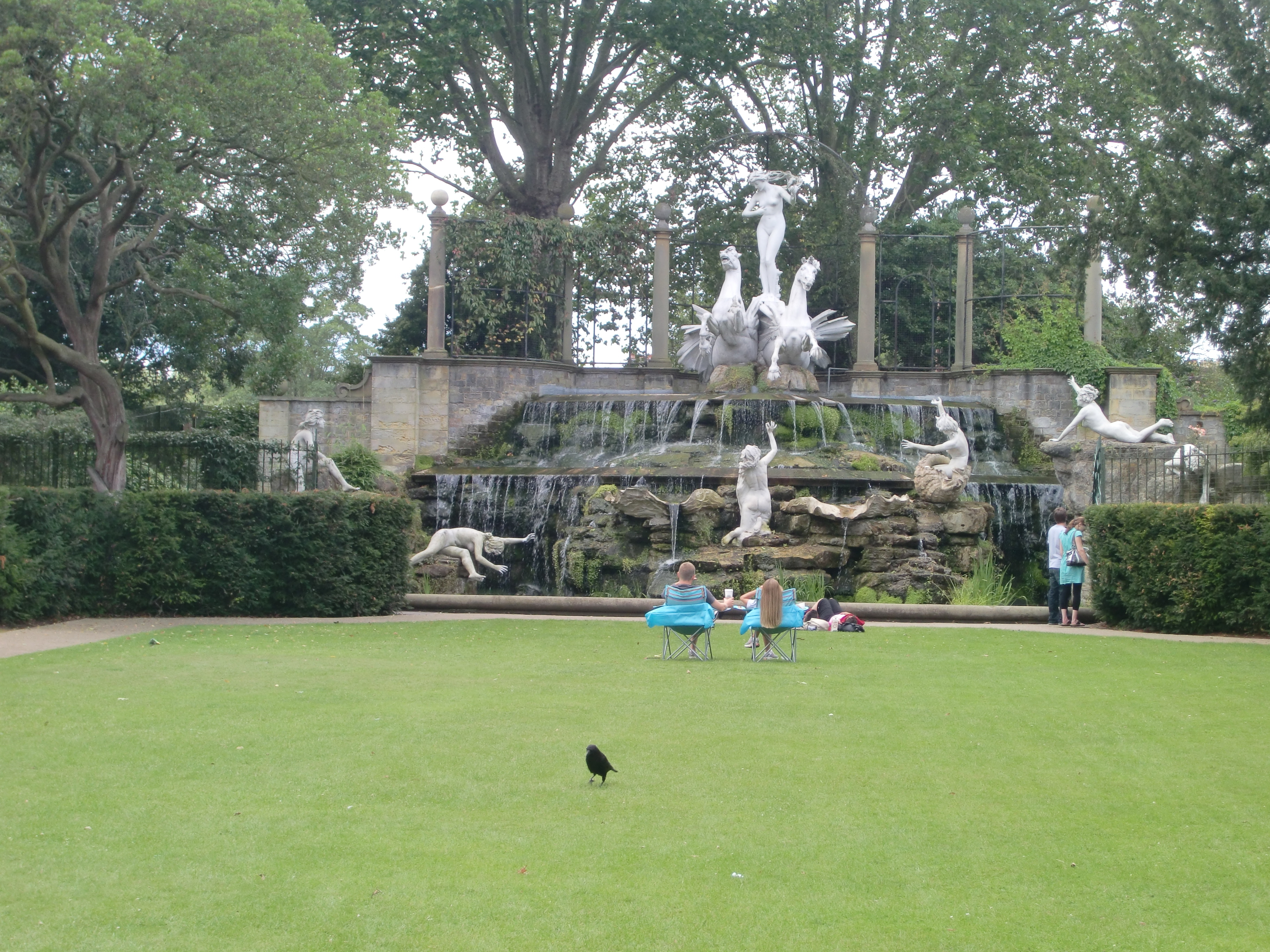 The Naked Ladies of Twickenham - a weekend shot